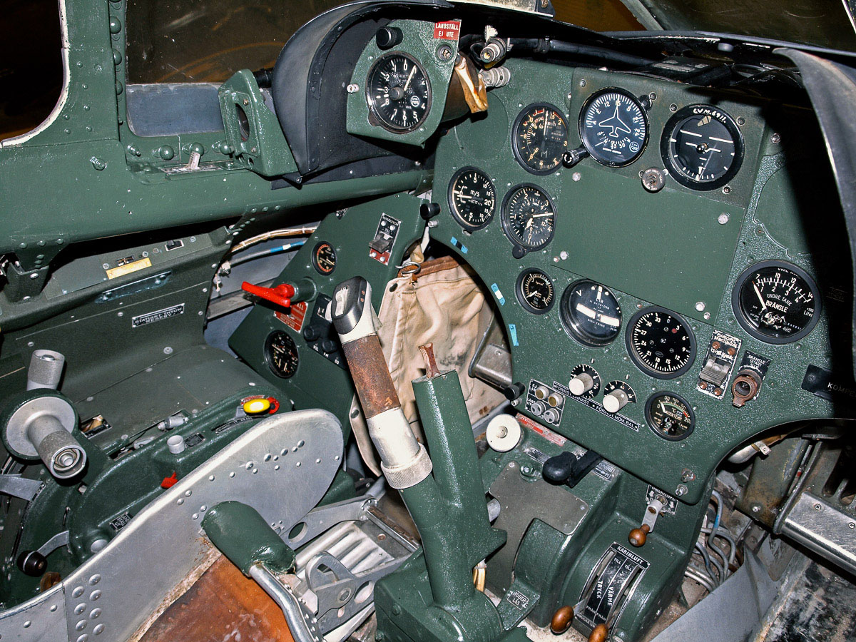 Cockpit of J 29F 29575. This aircraft was converted for target towing and towards the end of its service and thus lacking some of the original fighter equpiment The picture was taken just prior to restoration of the cockpit to its original fighter configuration.